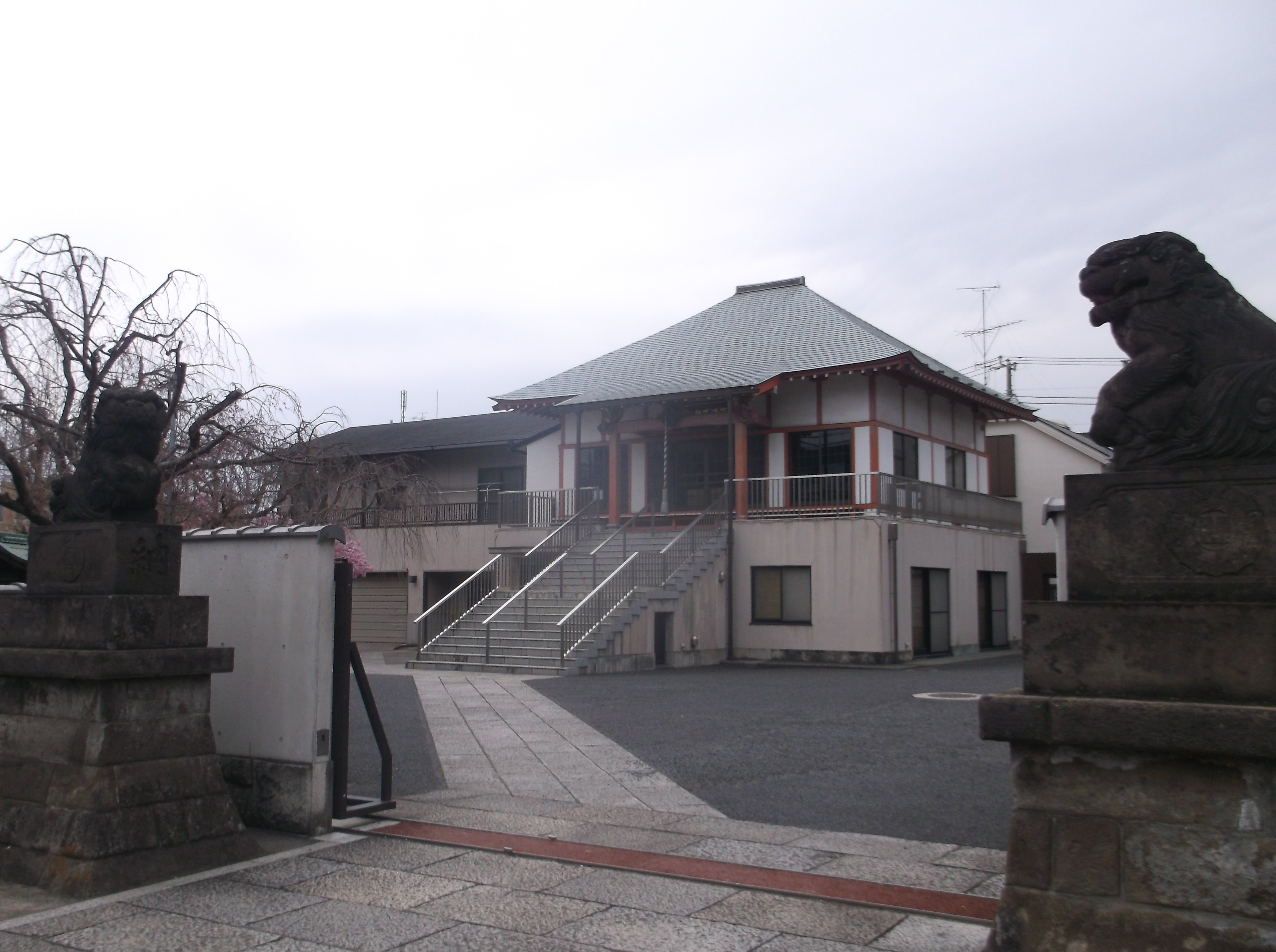 A photo of the entrance of Fukasawa Fudo Kyokai Temple,Fukasawa,Setagaya-ku,Tokyo,Japan.